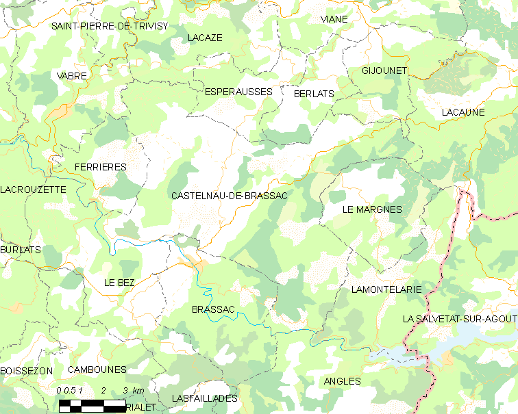 Map commune FR insee code 81062.png - Castelnau-de-Brassac